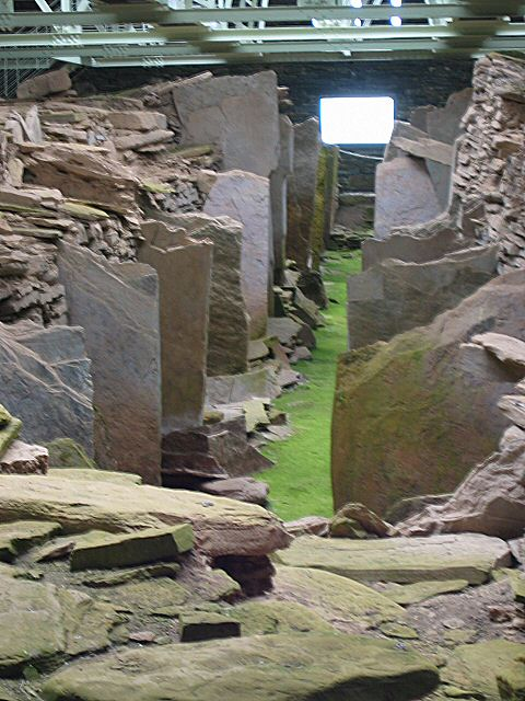 Midhowe Cairn interior. This huge chambered cairn is protected by a modern stone building.